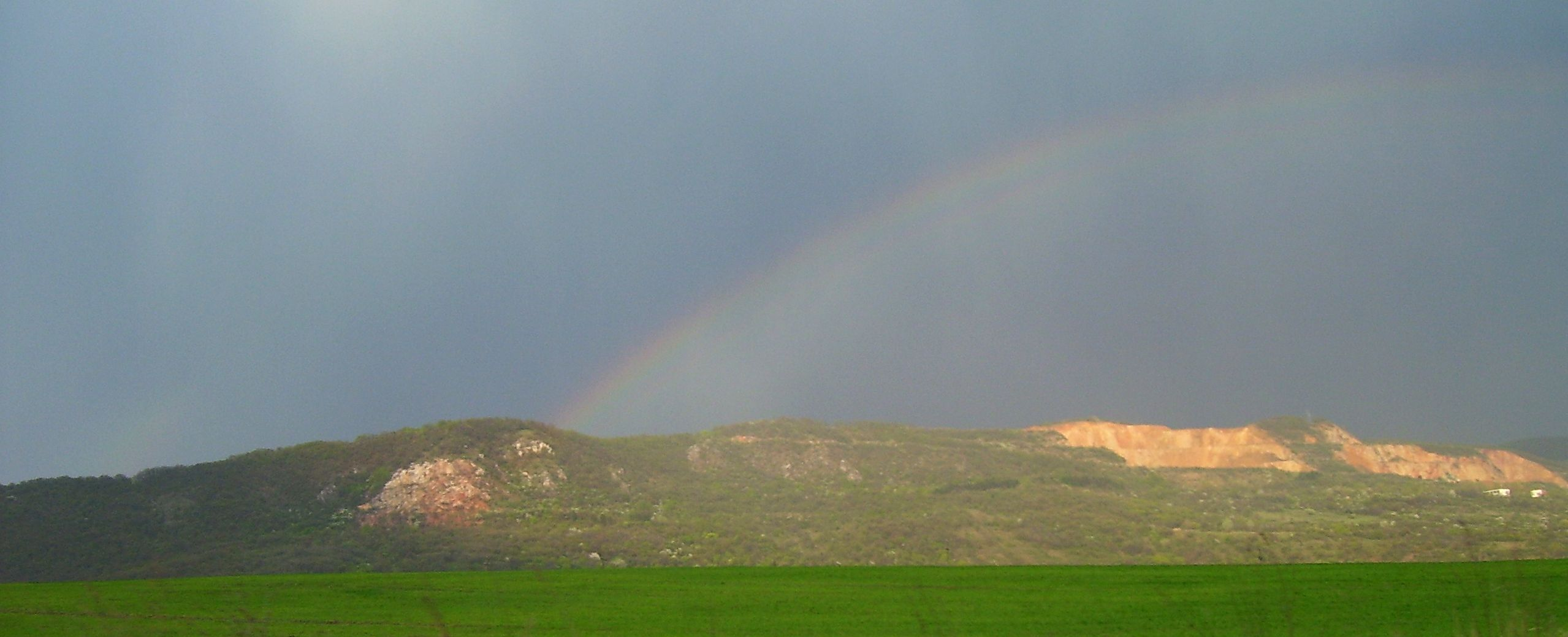 Photo of the Naszály mountain (in northern Hungary, 652 m) taken from southwest. Lime-pits of a cement plant and a rainbow can be seen on the picture.